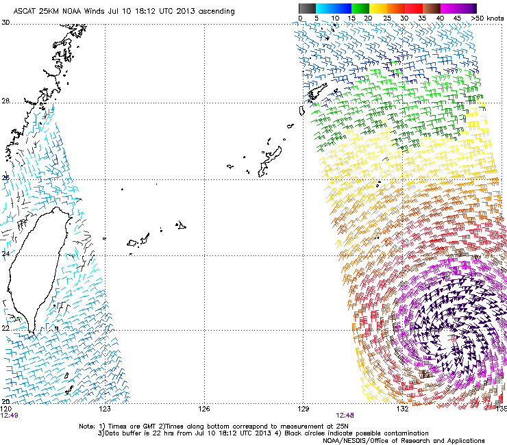 A snapshot of Typhoon Soulik while at Category 4 intensity captured by NOAA's ASCAT (Advanced Scatterometer) program